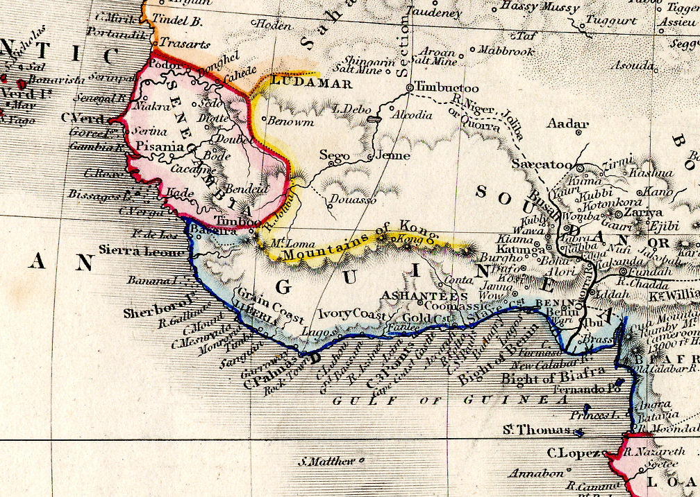 Detail showing Guinea and surrounding regions, from "Africa" plate of Milner's Descriptive Atlas